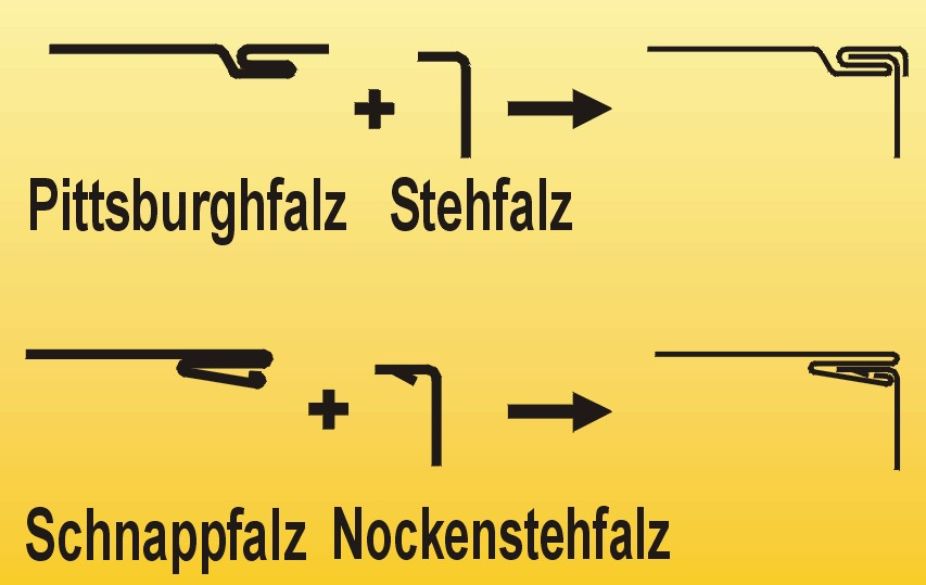 Pittsburgh and Snap Lock Joint